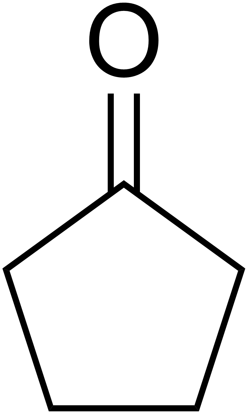 chemical structure of cyclopentanone